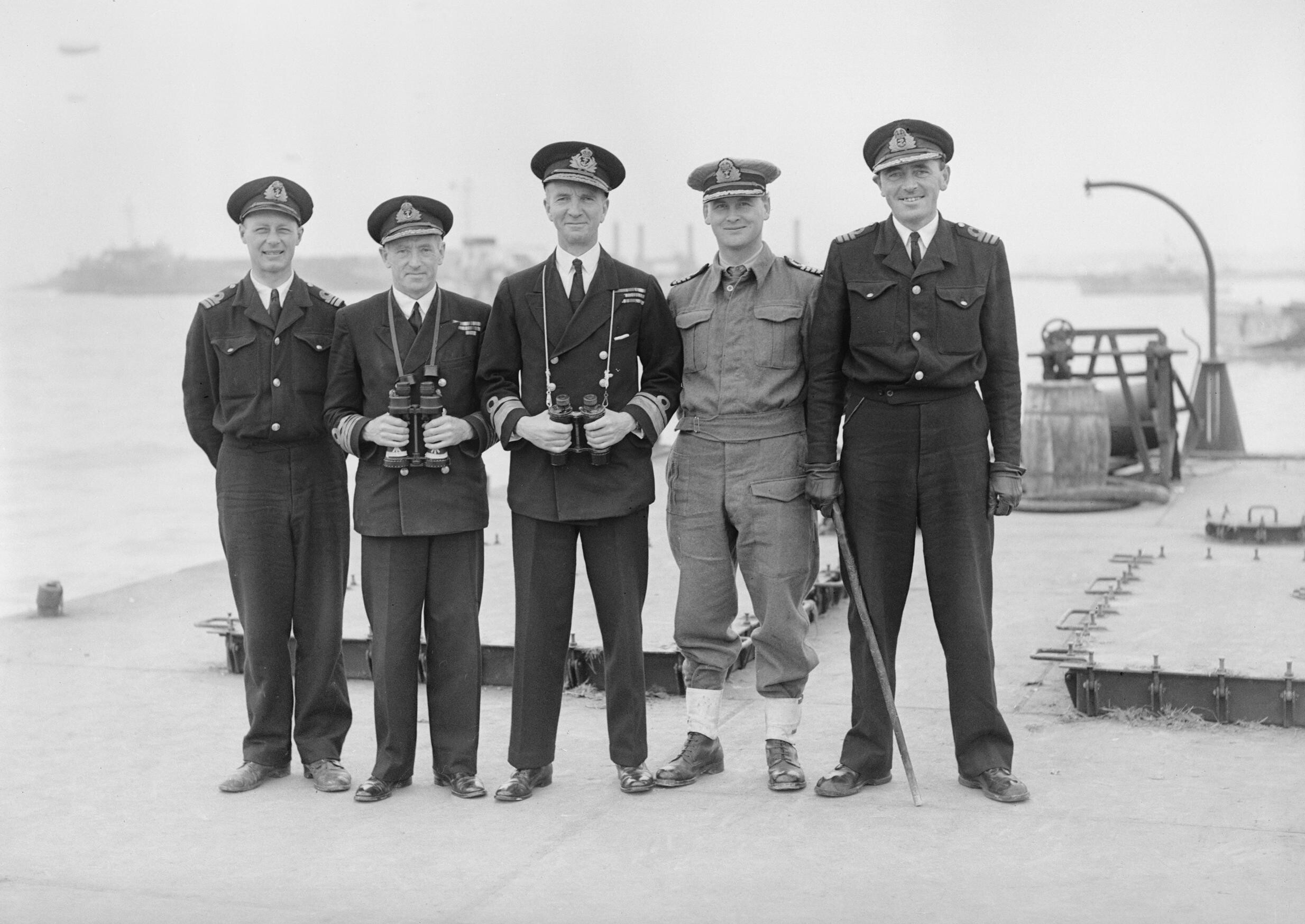 Allied Naval C in C in Normandy. 24 July 1944, Arromanches. the Visit of Admiral Sir Bertram Ramsay, Kcb, Kbe, Mvo, Allied Naval Commander, Expeditionary Force, To Mulberry "b", at Arromanches. Group of Officers responsible for planning and execution of Mul erry; left to right: Lieut Cdr A M D Lampden, RN; Capt Hickling, DSO, RN, NOIC Arromanches; Rear Admiral W G Tennant, CB, MVO; Capt J H Jellett, RNVR; and Commander R K Silcock, RN.